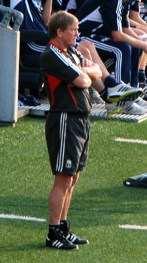 Kenny Dalglish as a menager during pre-season friendly Vålerenga v. Liverpool on 1st August 2011 at Ullevål. Result: 3-3.